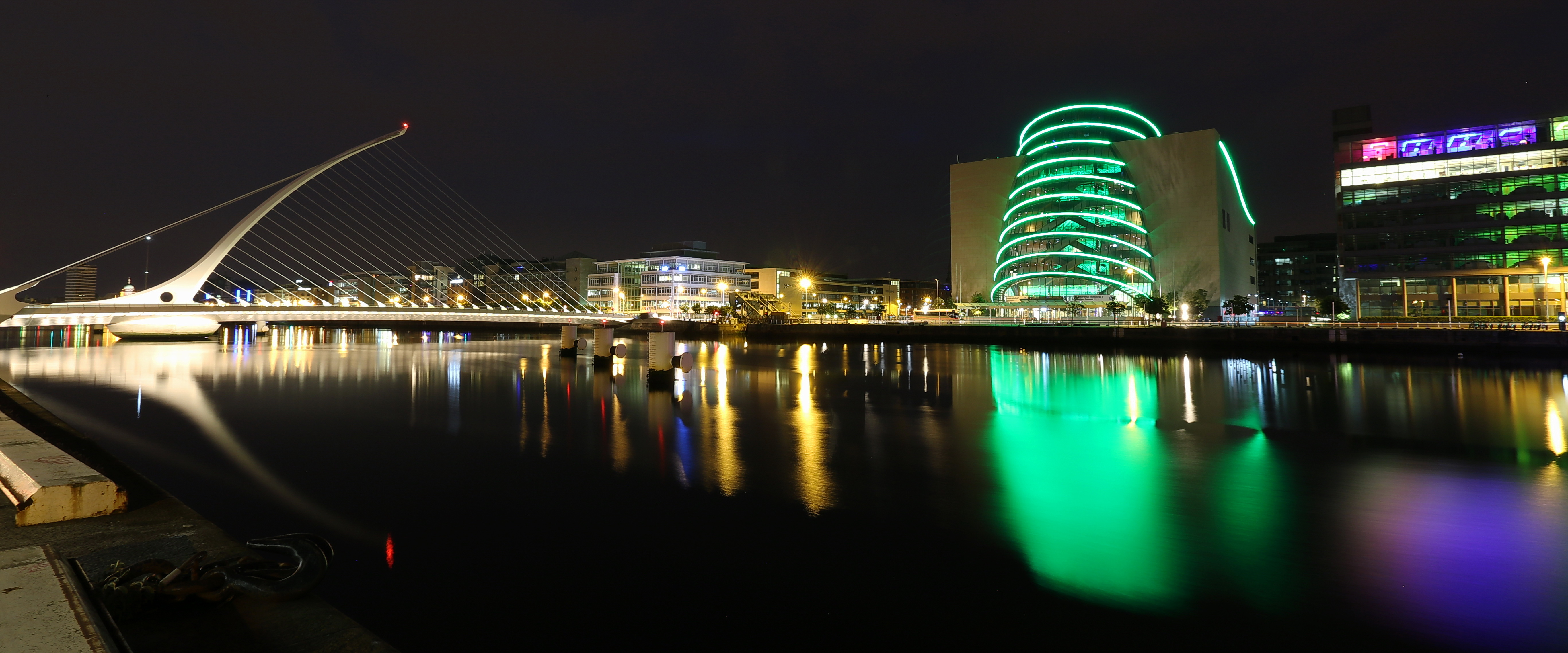 Samuel Beckett Bridge, The Convention Centre Dublin. North Wall Quay & River Liffey, Dublin, Co. Dublin, Ireland